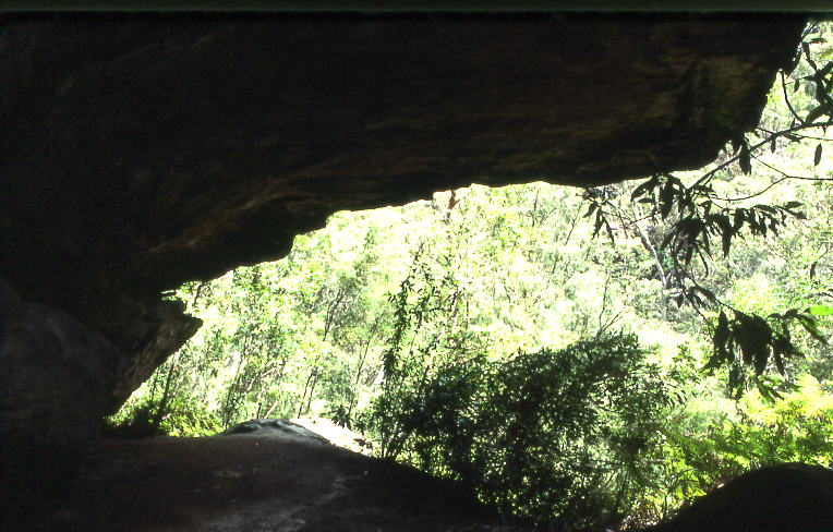 Rock shelter outside Berowra, Sydney